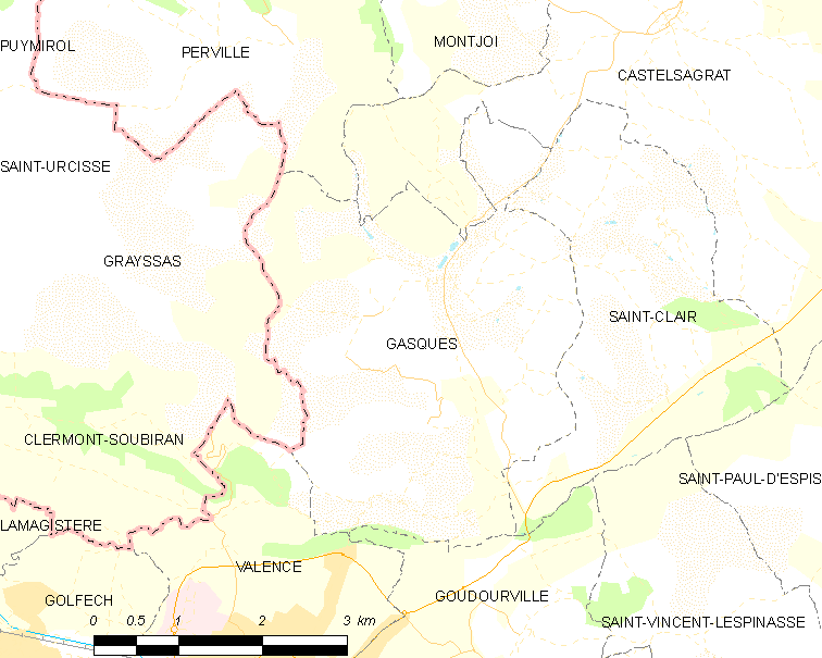 Map of French municipality Gasques